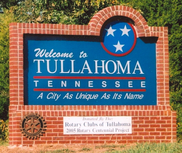 Tullahoma Welcome Sign